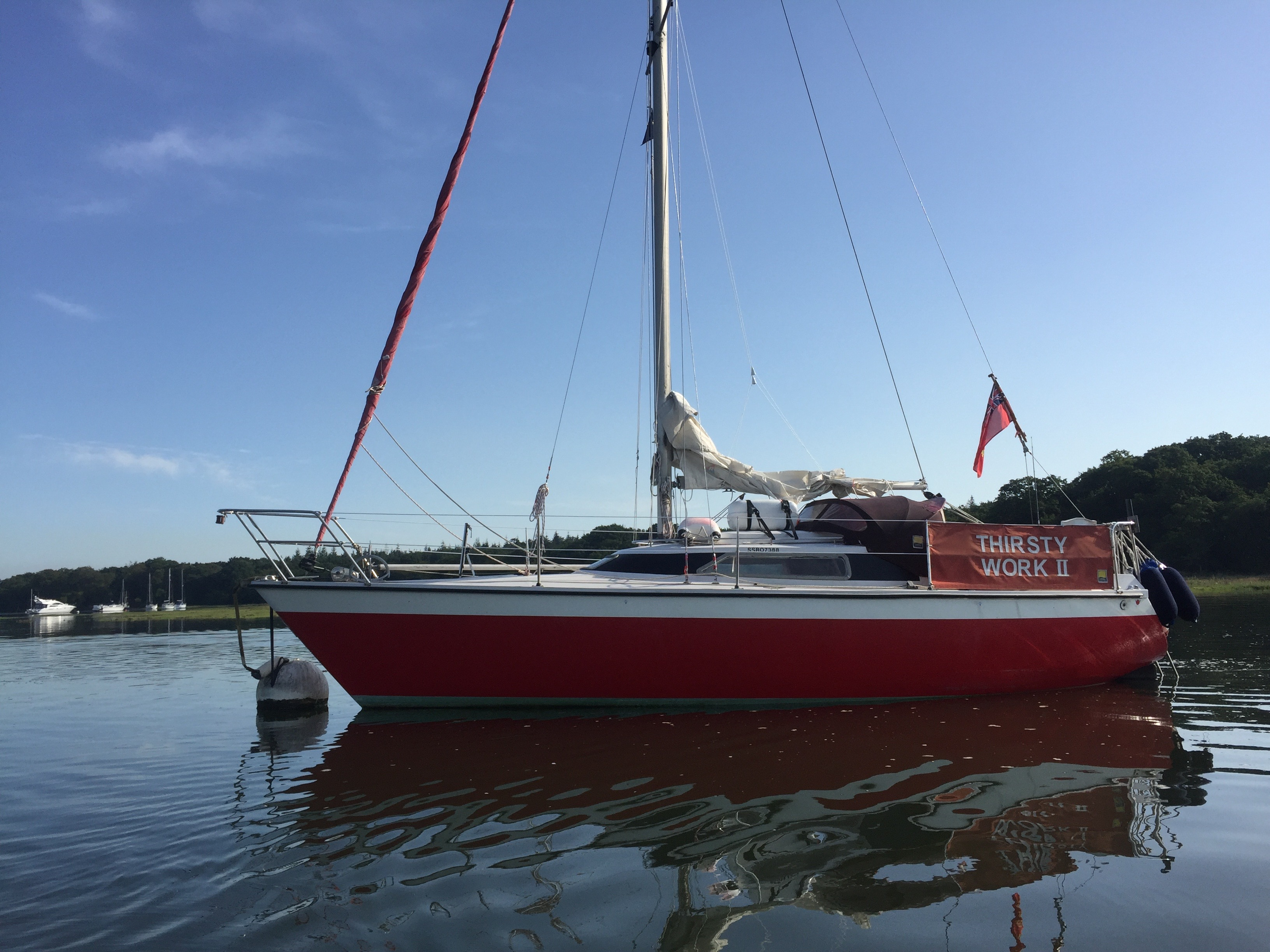 Prospect 900, circa 1979 build. Moored on the upper reaches of the Beaulieu River in Hampshire, UK.